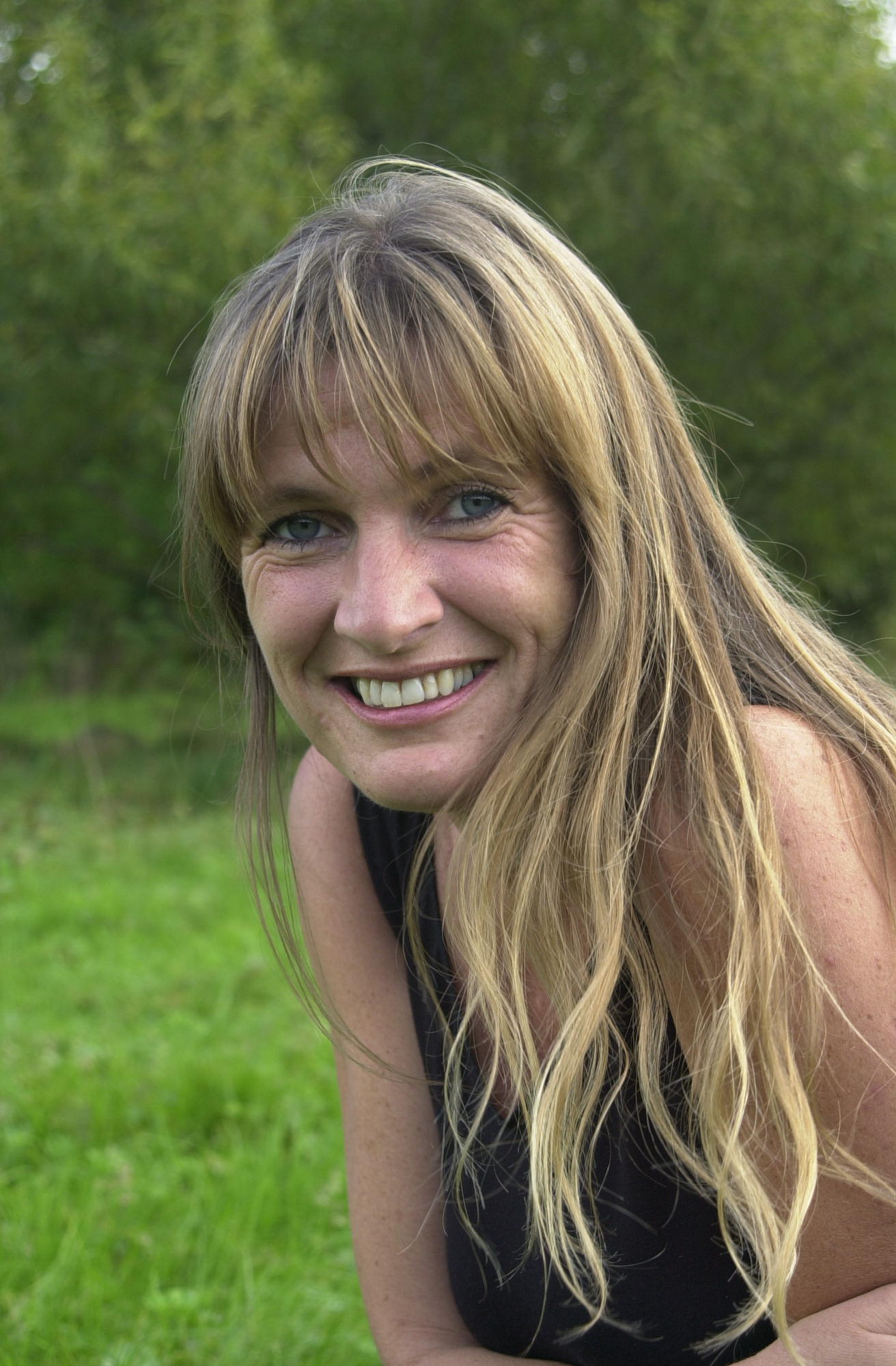 Norwegian author Sylvelin Vatle (born 1957)